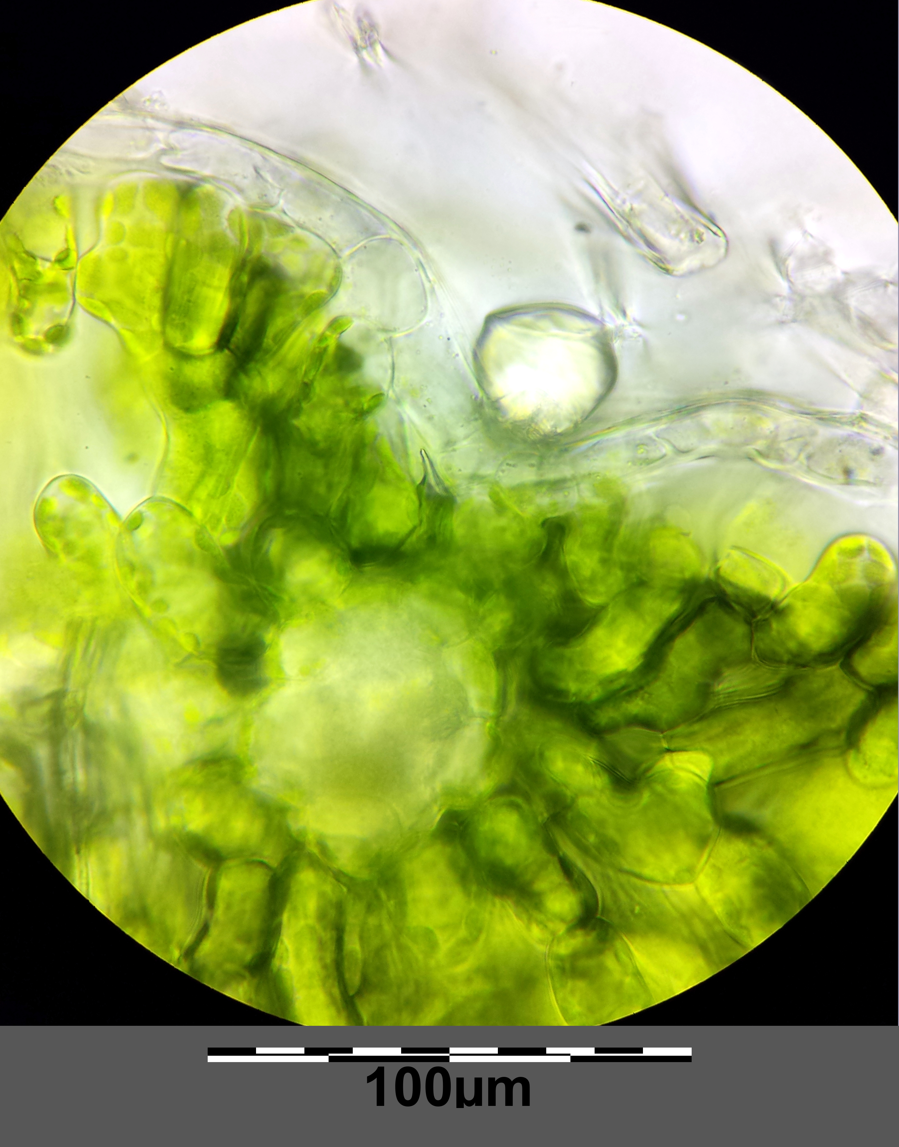 Leaf cross section with oil gland Taxonym: Artemisia absinthium ss Fischer et al. EfÖLS 2008 ISBN 978-3-85474-187-9 Location: near Niederhollabrunn, district Korneuburg, Lower Austria - ca. 350 m a.s.l. Habitat: vineyard